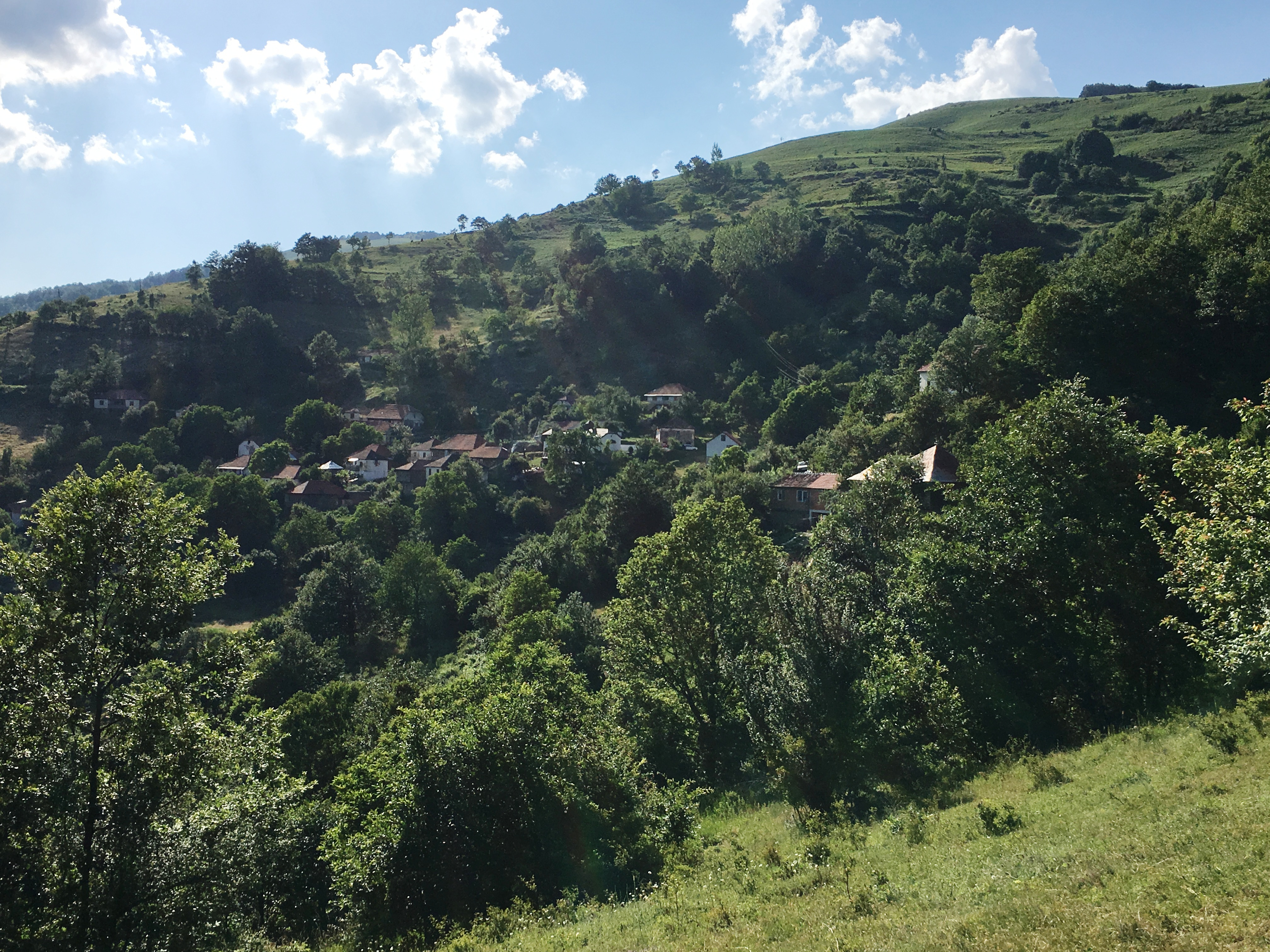 Panoramic view of the village of Bitovo